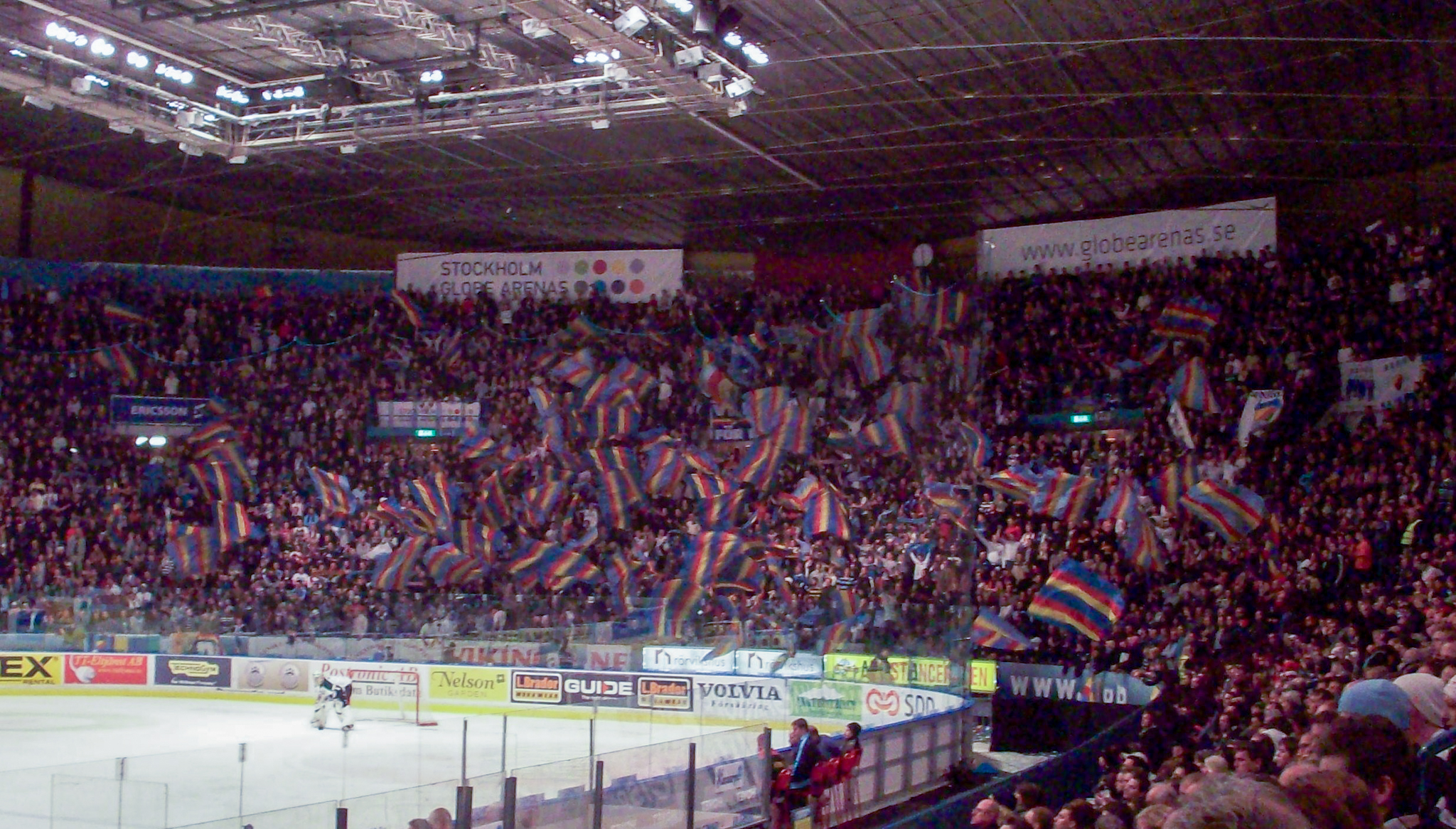 Djurgården's supporters waving their flags during the Swedish Elite League ice hockey game between Djurgårdens IF and Färjestads BK (3-2) inside the Stockholm Globe Arena.